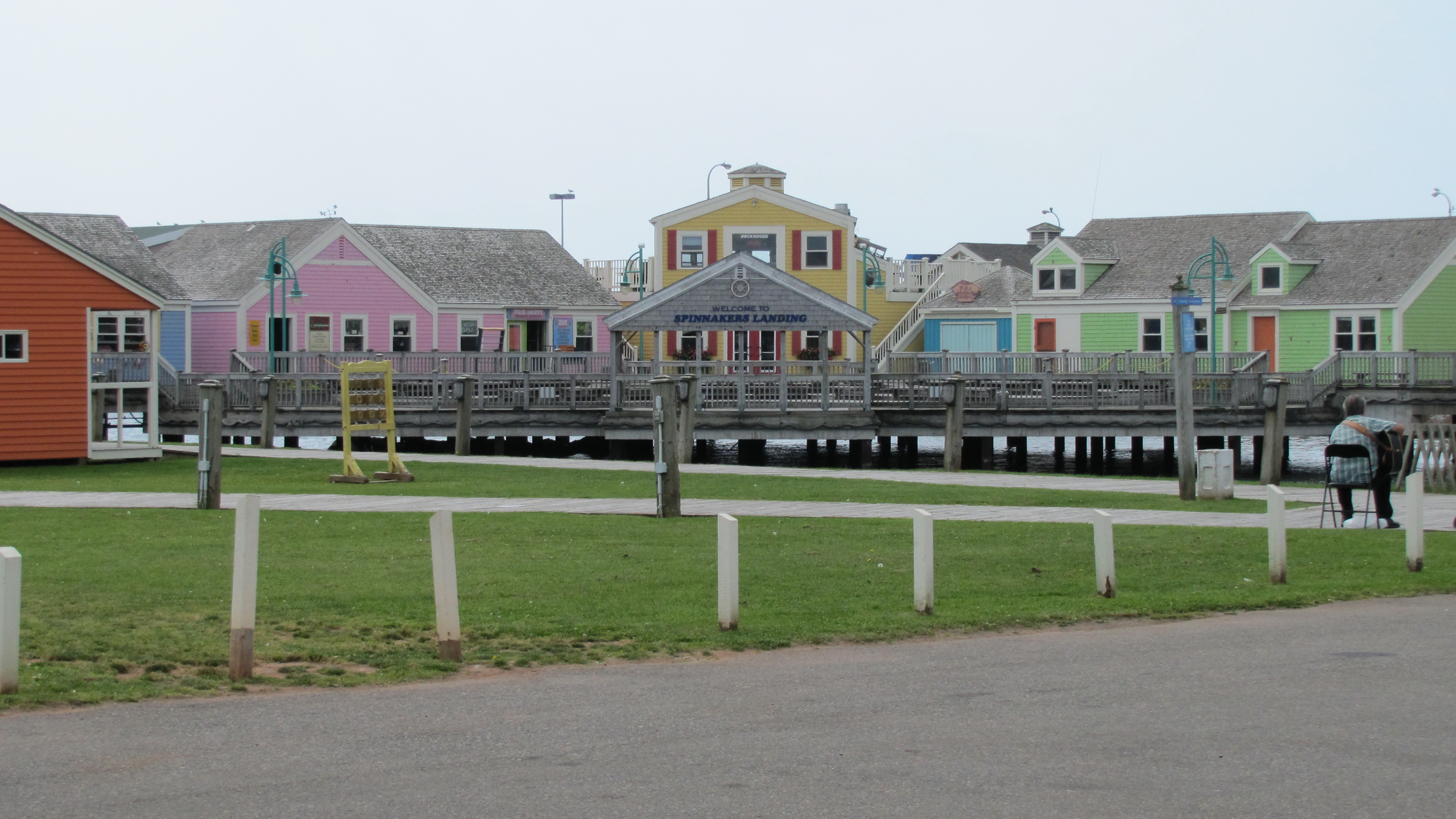 Spinnakers' Landing, Harbour Dr, Summerside, Prince Edward Island, Canada